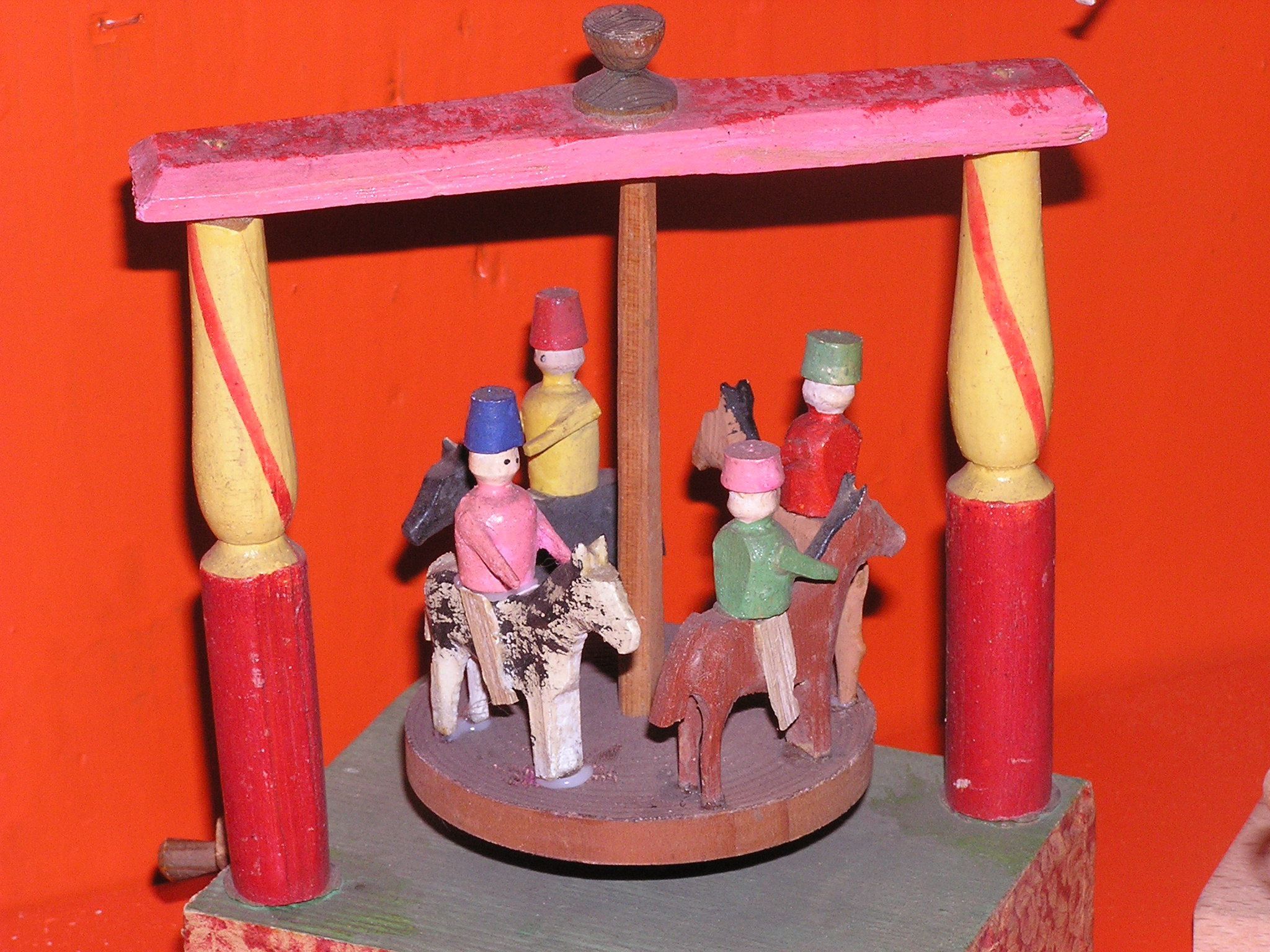 Open air museum Roscheider Hof, house Saargau - toy exhibition